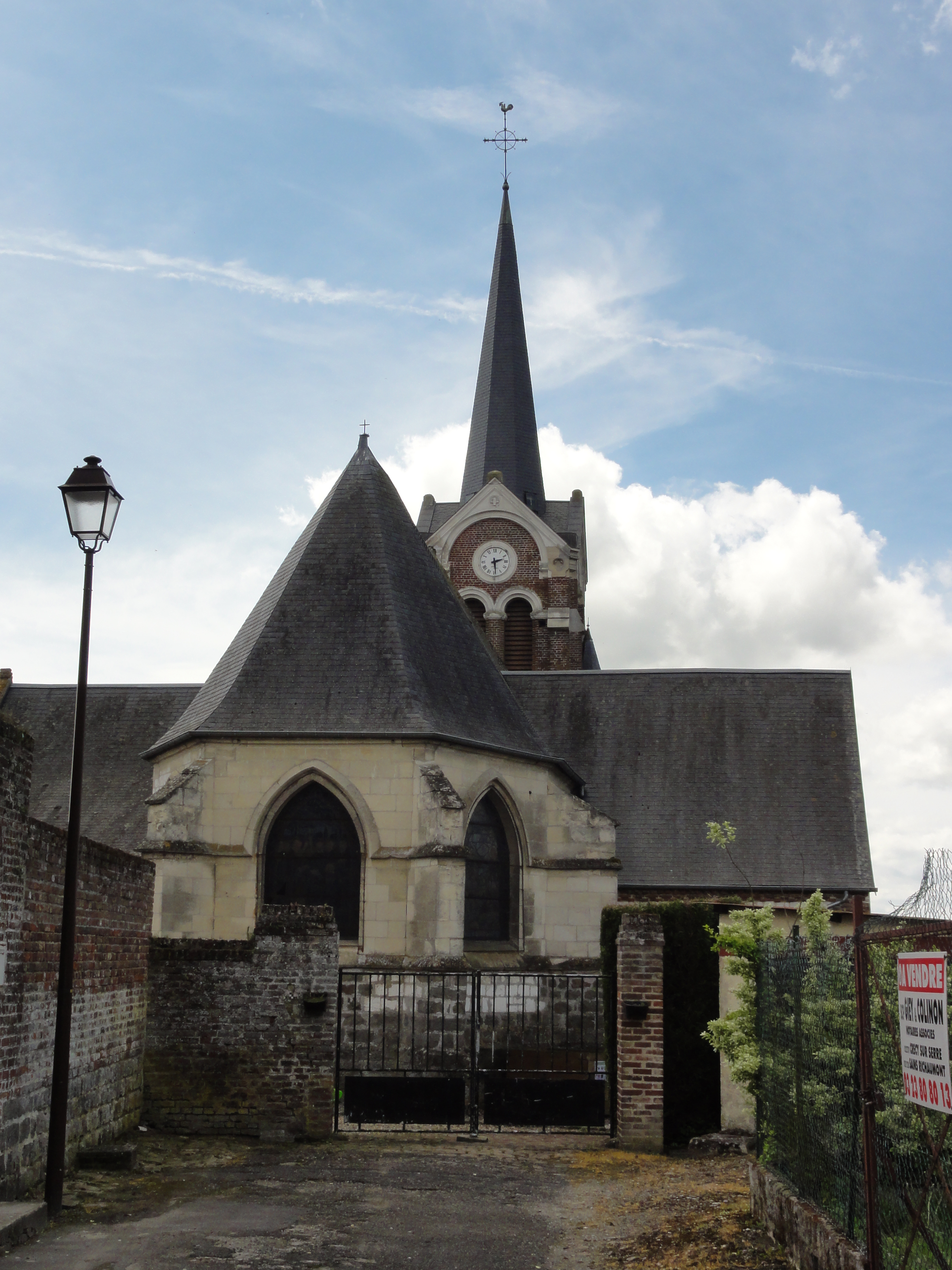 Montigny-sur-Crécy (Aisne) église